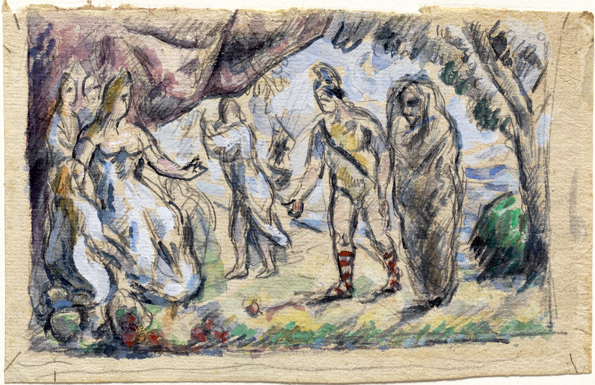 Paul Cézanne, French, 1839–1906 Aeneas Meeting Dido at Carthage, ca. 1875 Watercolor, gouache, and graphite on buff laid paper; verso: graphite 12 x 18.4 cm. (4 3/4 x 7 1/4 in.) The Henry and Rose Pearlman Foundation, on long-term loan to the Princeton University Art Museum L.1988.62.51 Rewald (1983) 43 Venturi (1936) 871